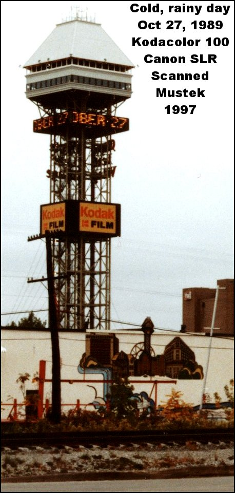 Crop from a larger image taken of a gasoline price sign. The tower happened to be in the frame. Today, May 8, 2013, I did a Google Earth search for this area. Apparently it has been rebuilt.